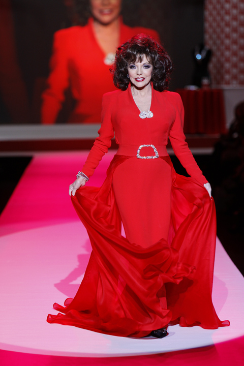 Joan Collins in Stéphane Rolland, 2010 The Heart Truth® is a national awareness campaign for women about heart disease sponsored by the National Heart, Lung, and Blood Institute (NHLBI), part of the National Institutes of Health, U.S. Department of Health and Human Services (HHS). The Red Dress®, introduced by the NHLBI in 2002, is the national symbol for women and heart disease awareness. Visit for information on women and heart disease. ®, TM The Heart Truth, its logo and The Red Dress are trademarks of HHS. Participation by Mercedes-Benz Fashion Week, Diet Coke, Swarovski, Tylenol, St. Joseph's Aspirin, Bobbi Brown, and Brian Atwood does not imply endorsement by HHS.